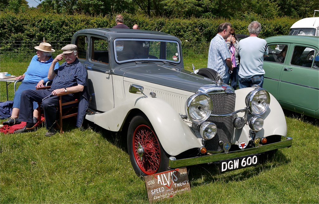 Alvis Speed Twenty with Sports Saloon coachwork by Charlesworth (Panasonic G1 14-45 Lens)